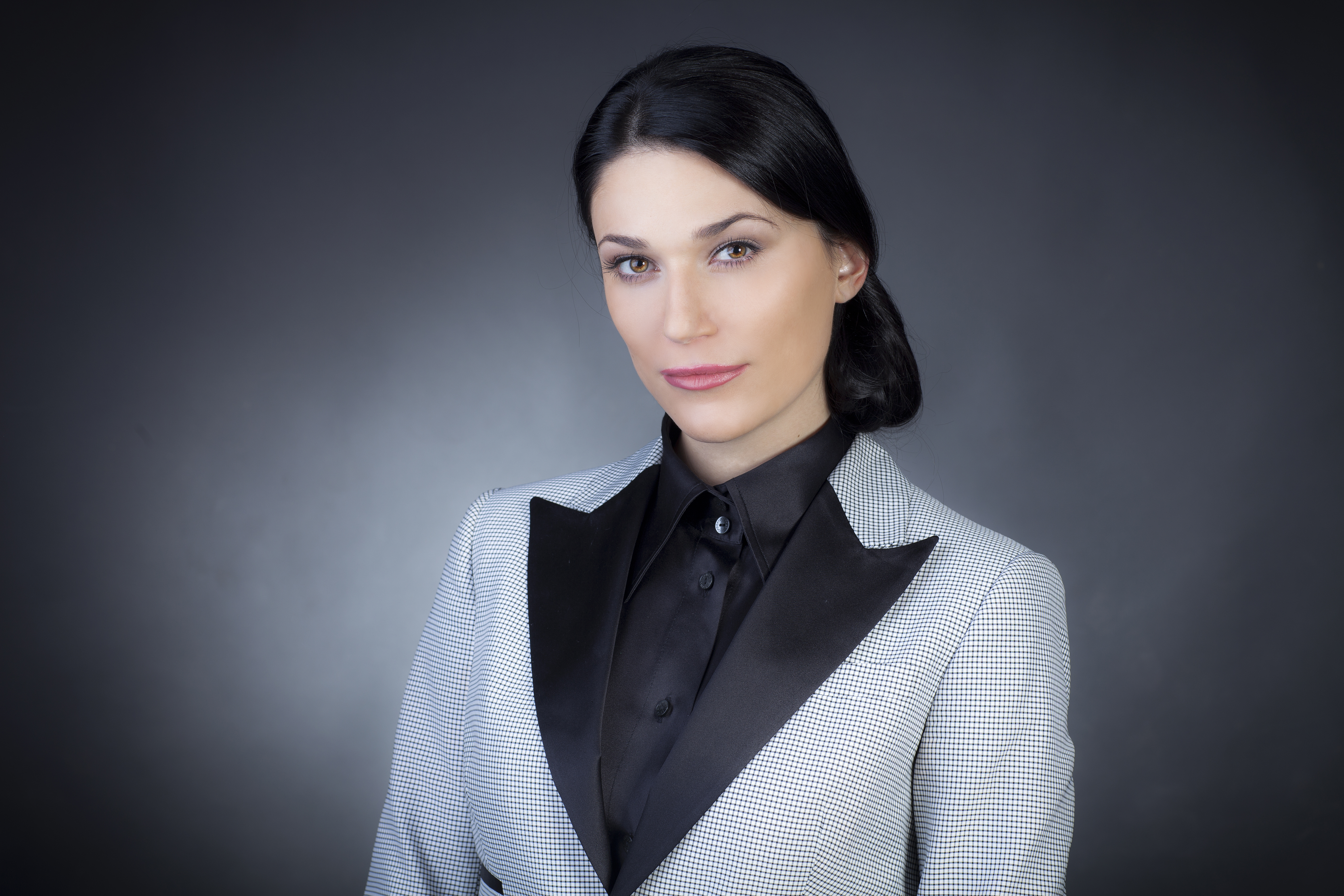 Vyktoriya Dzharty